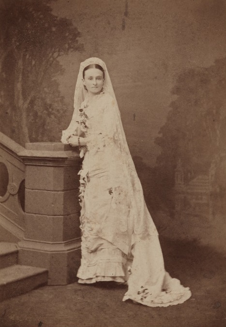 Edith Cowan in her wedding gown